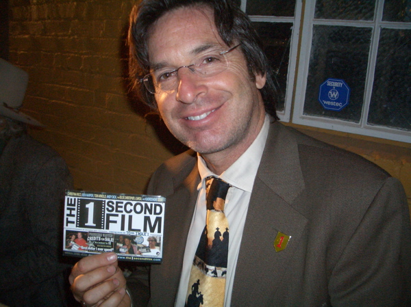 Robert Carradine holding a producer credit for The 1 Second Film at the Mill Valley Film Festival